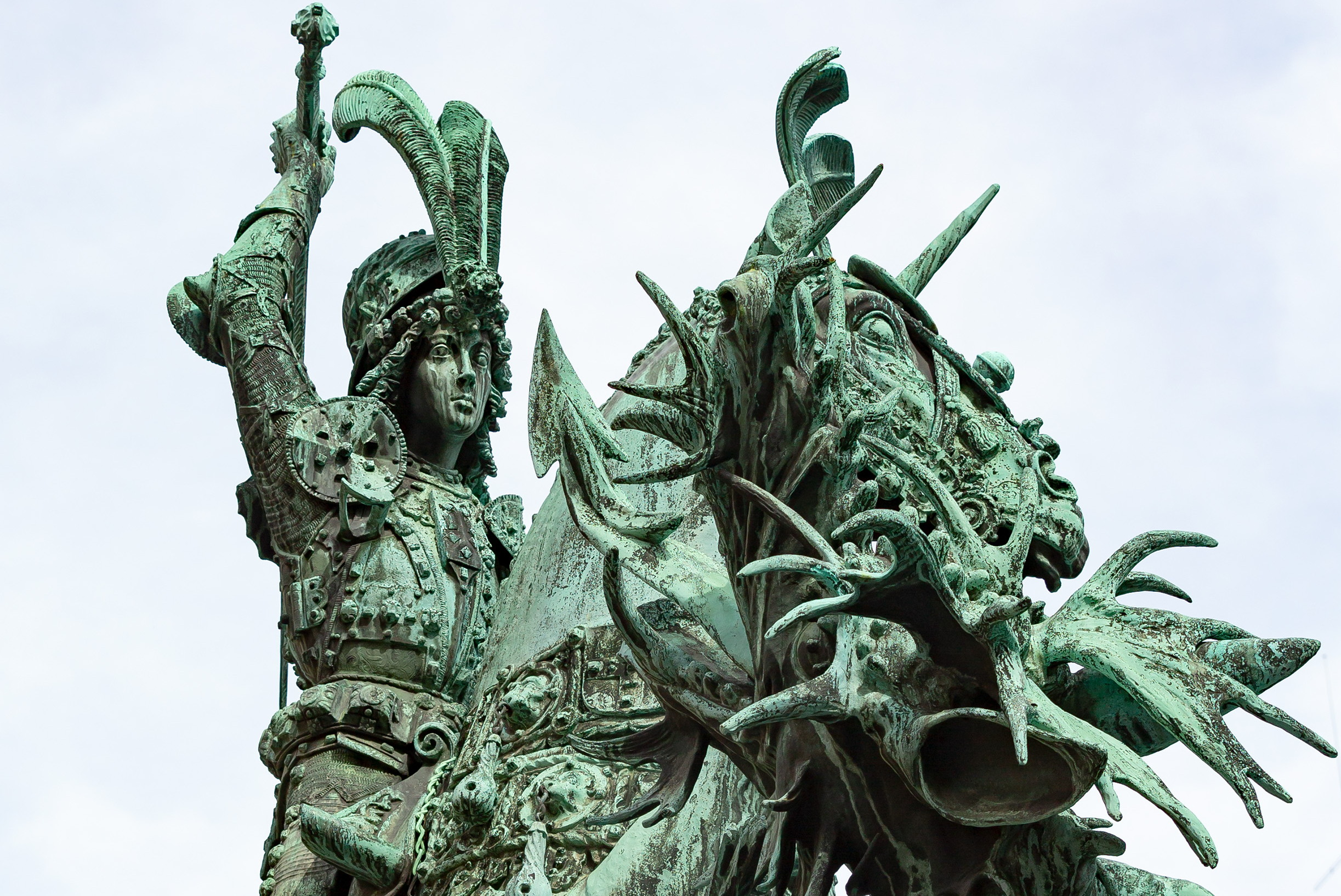 Sankt Göran och draken, Köpmantorget, Stockholm, detalj